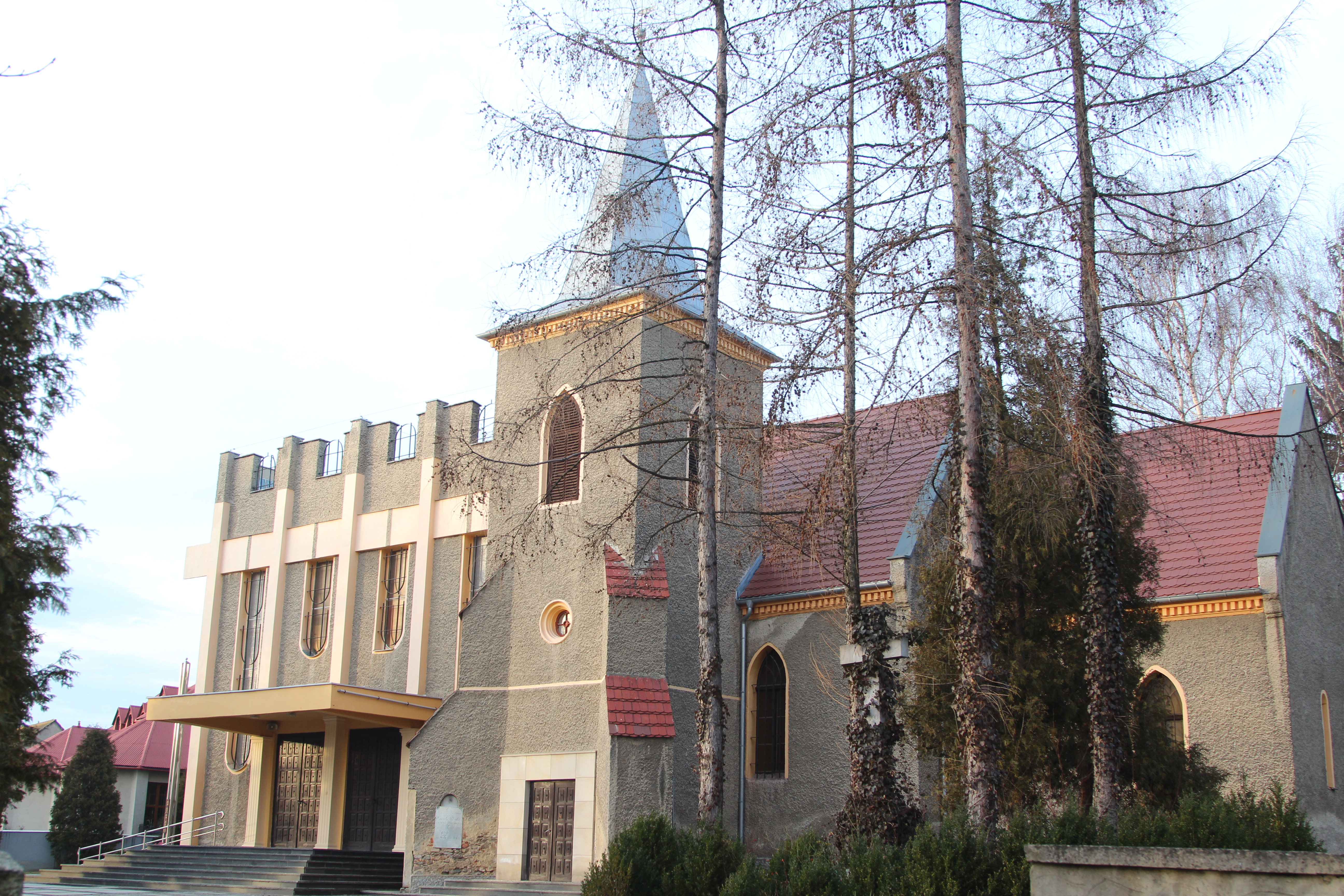 Saint Martin church in Piława Górna